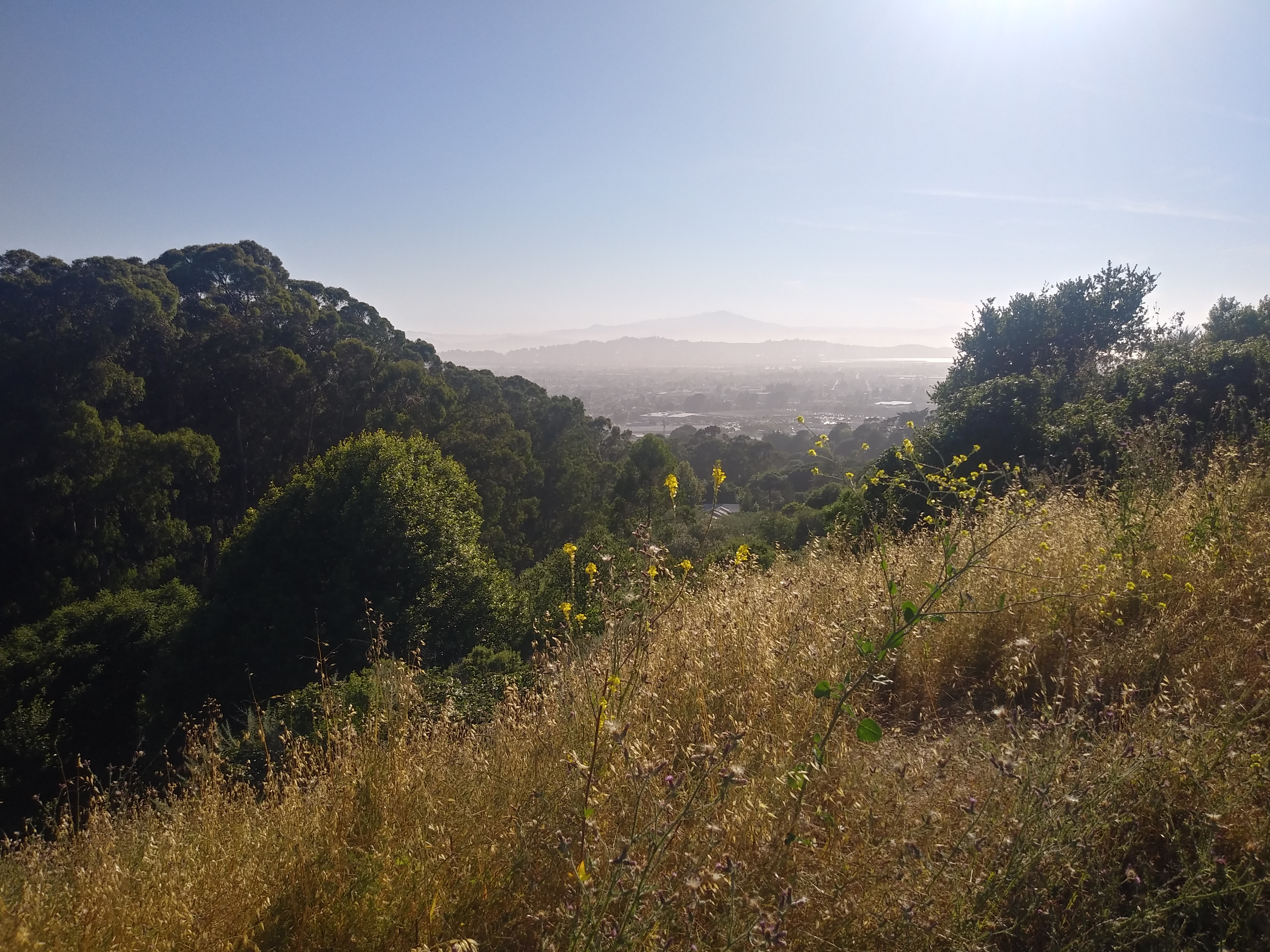 Richmond seen from Wildcat Canyon Regional Park